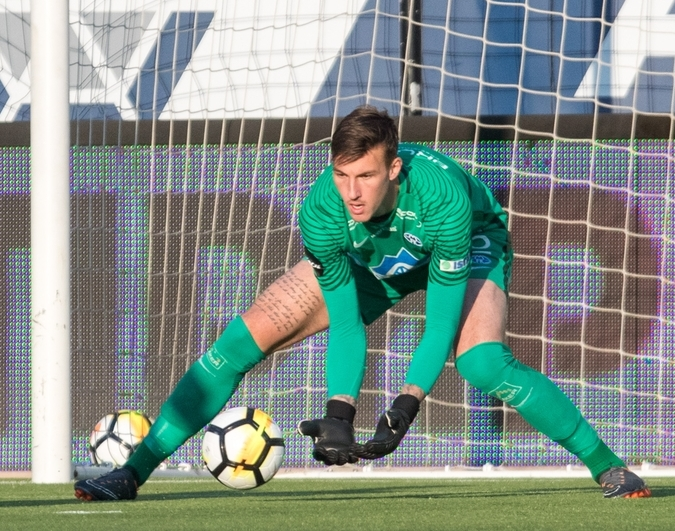 30.08.2018. Норвегия, Мольде, «Мольде». Лига Европы УЕФА 2018/19, раунд плей-офф, «Мольде» — «Зенит».